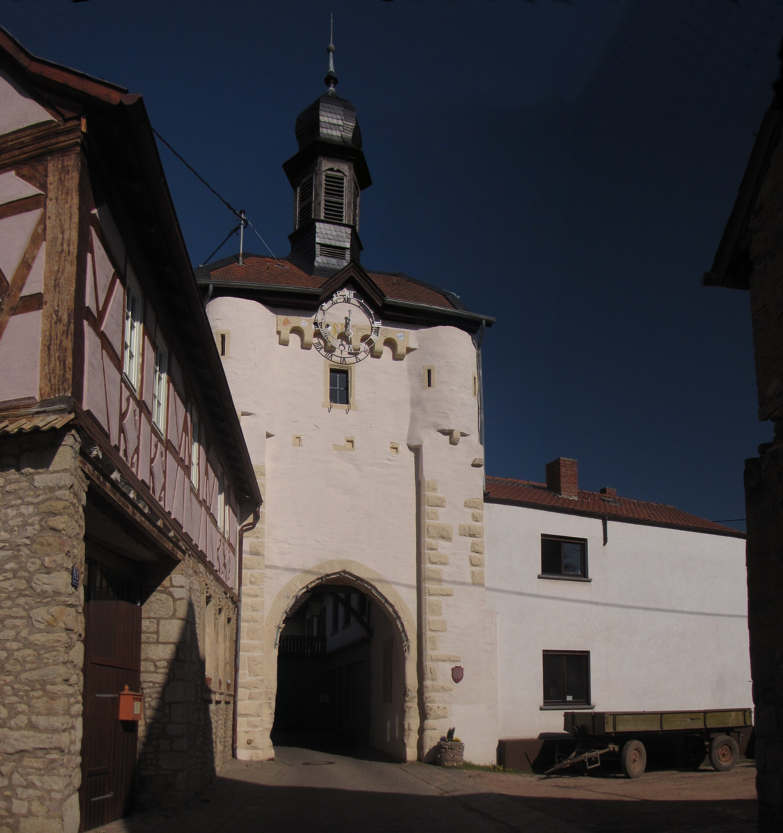 Clock tower gate Neu-Bamberg